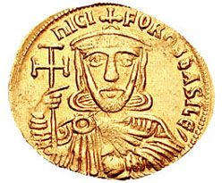 NICI-FOROS bASILE', crowned bust of Nicephorus, wearing chlamys, holding cross potent and akakia